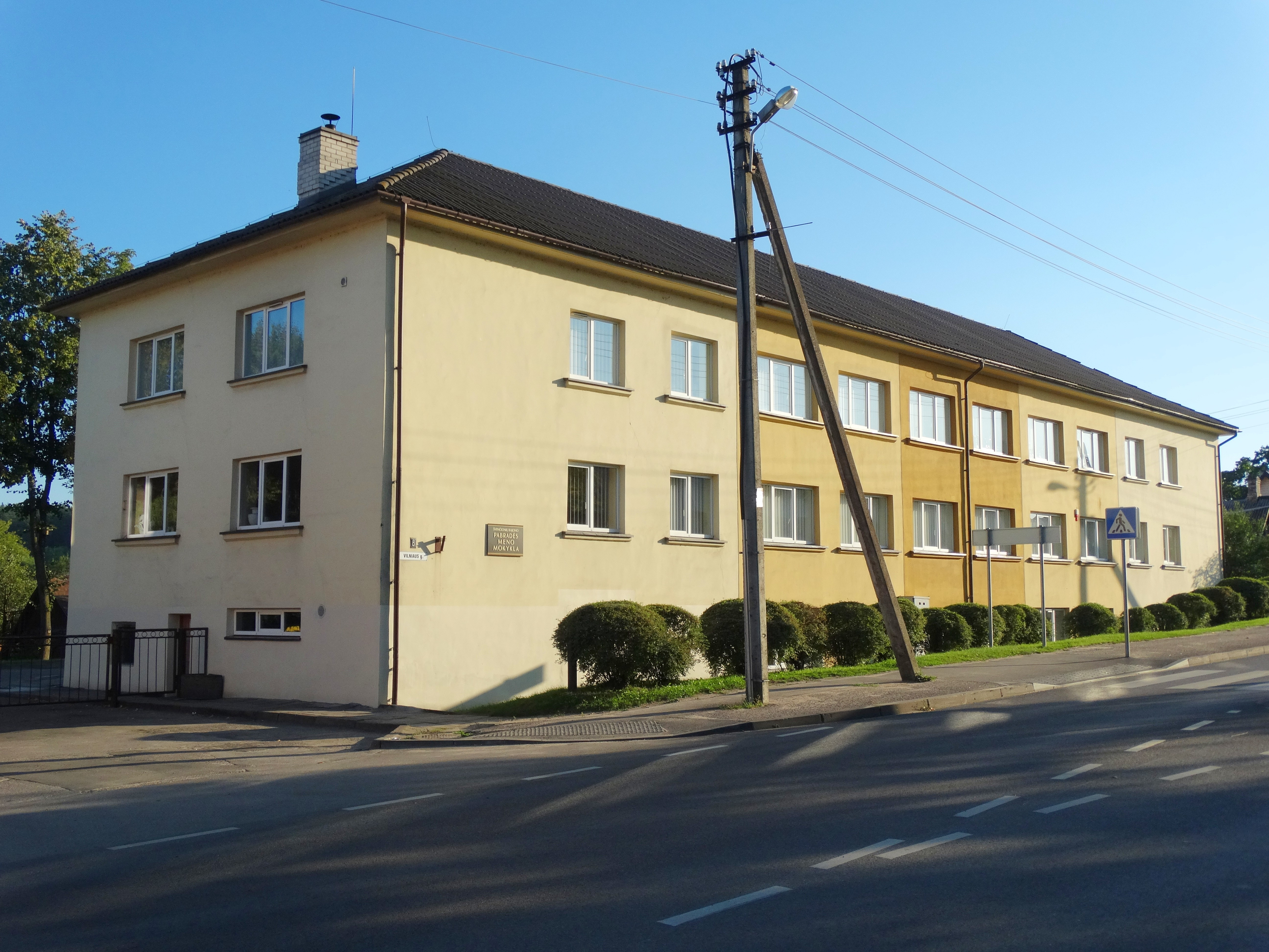 Art school in Pabradė, Švenčionys District, Lithuania